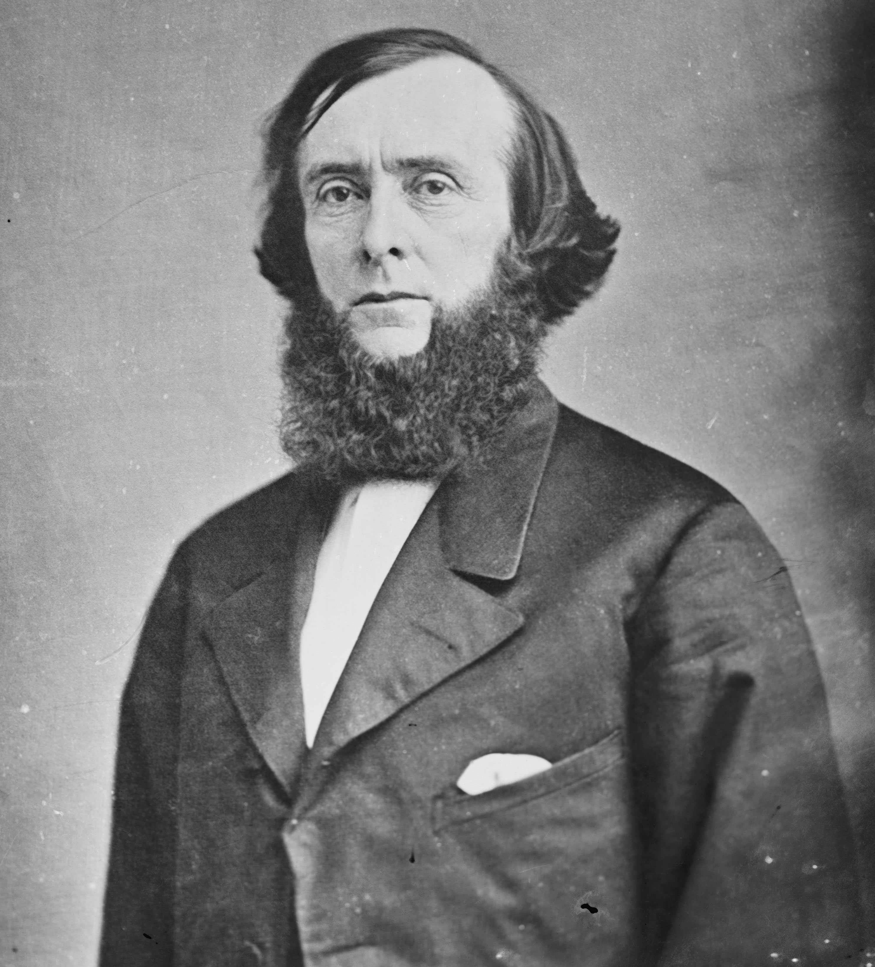 Edwards Pierrepont, former Attorney General of the United States.